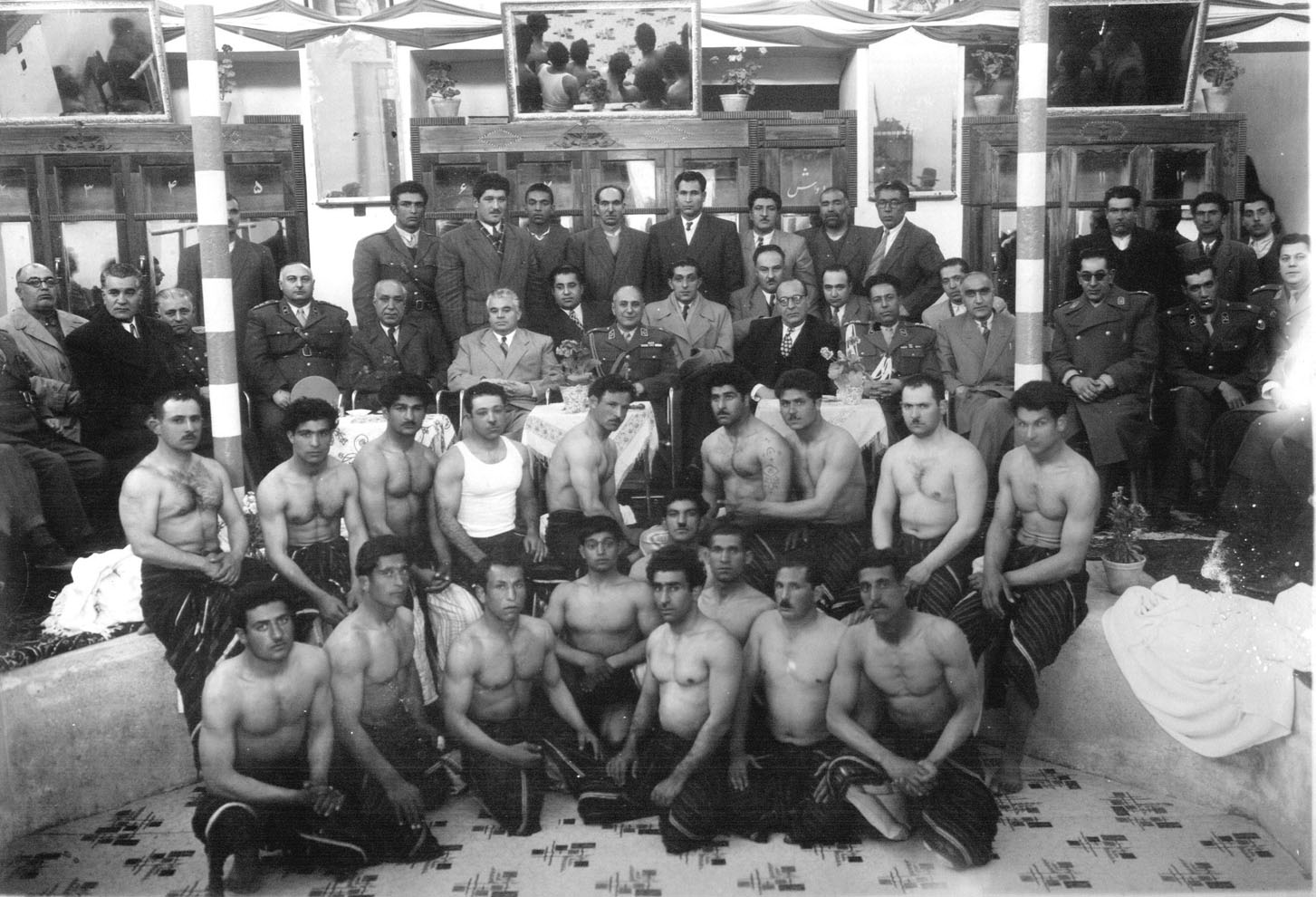 Family Collection